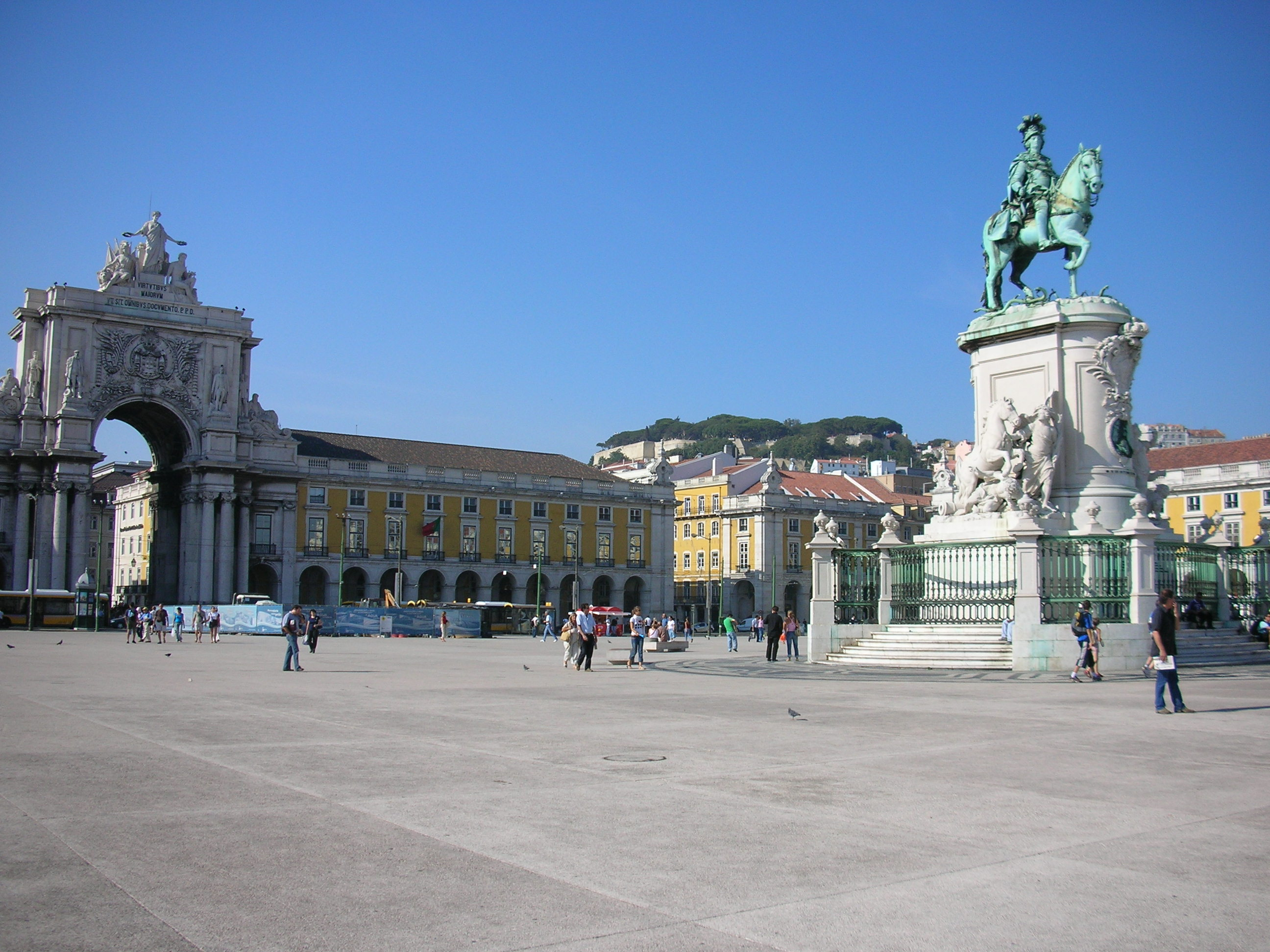 Lisbon Downtown